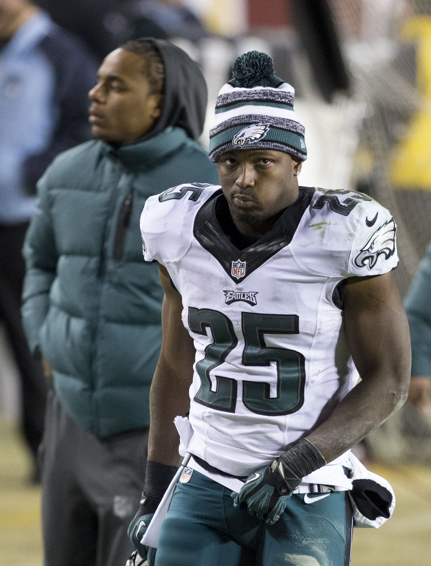 Eagles at Redskins 12/20/14